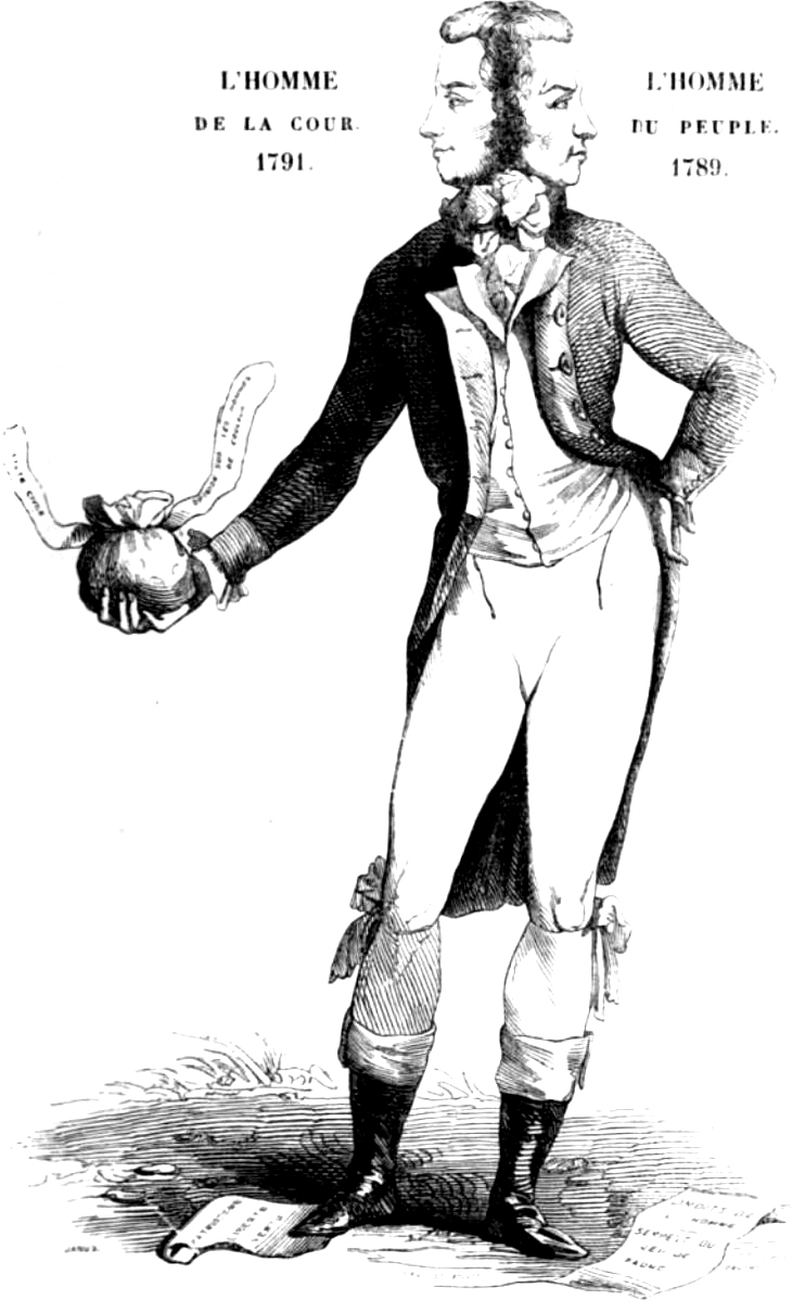 Antoine Barnave (1761-1793), Janus-faced politician.